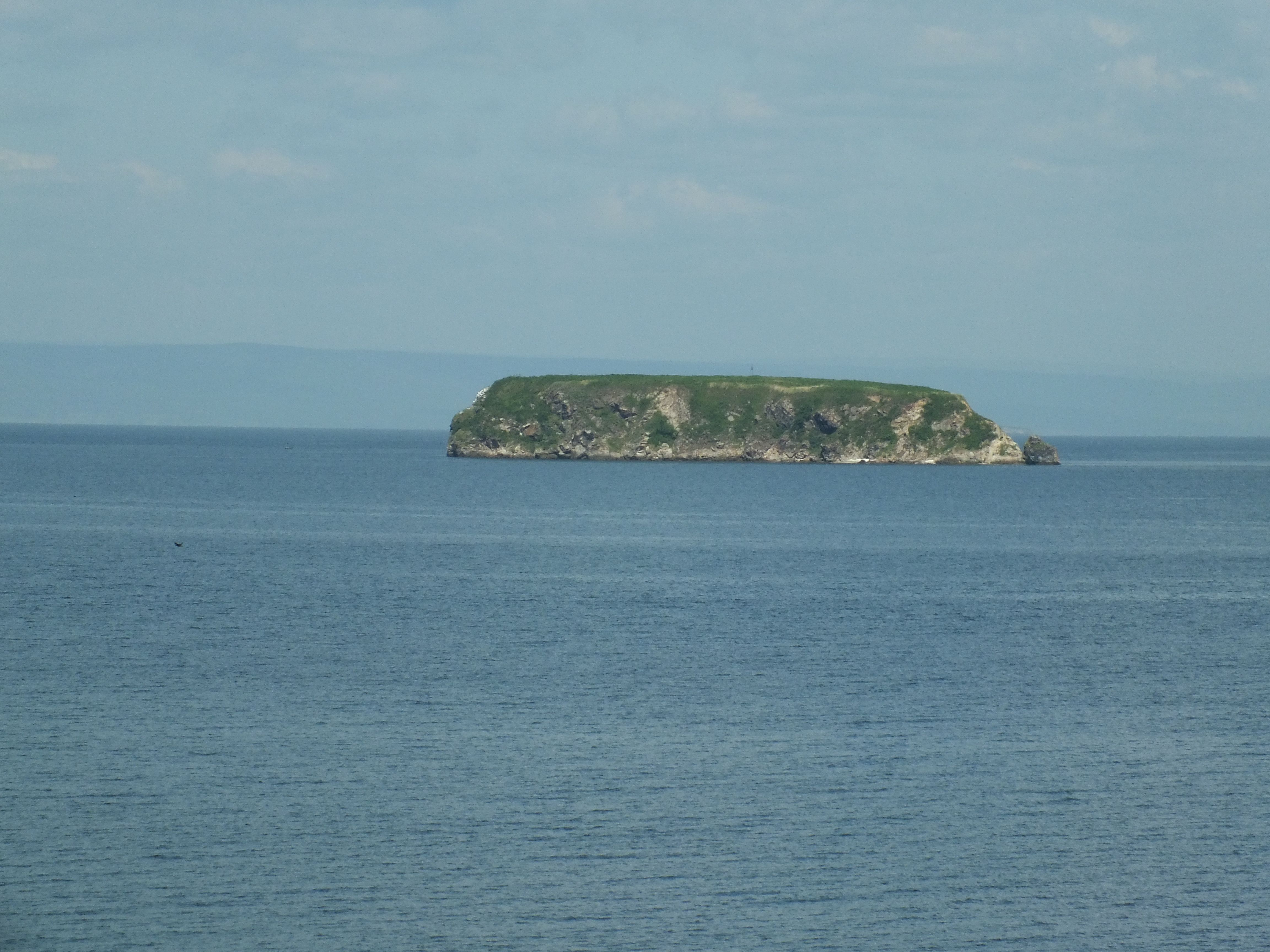 Skrebtsov Island in Primorsky Krai, Russia